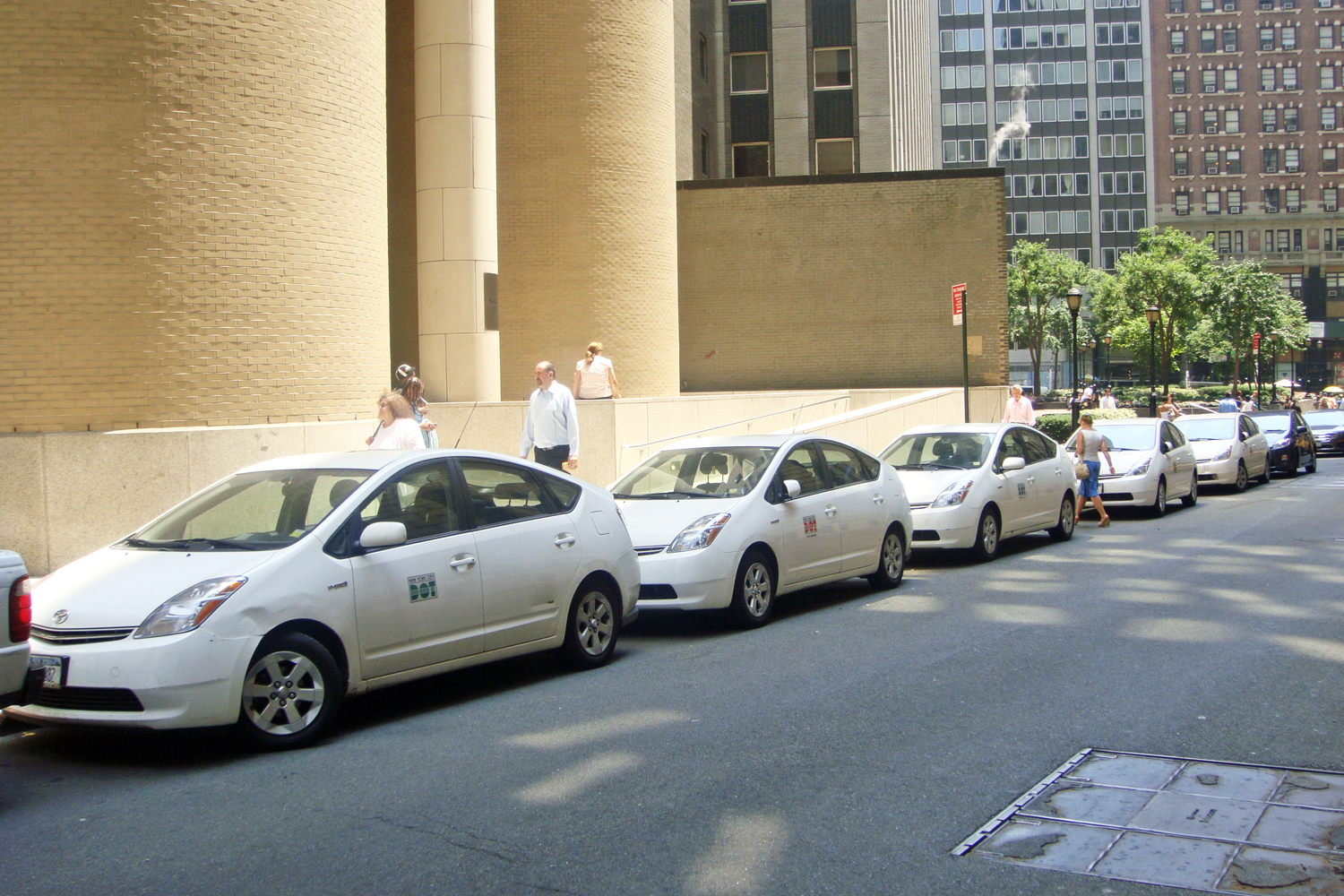 New York City's Department of Transportation fleet of Toyota Prius, Manhattan, NYC.